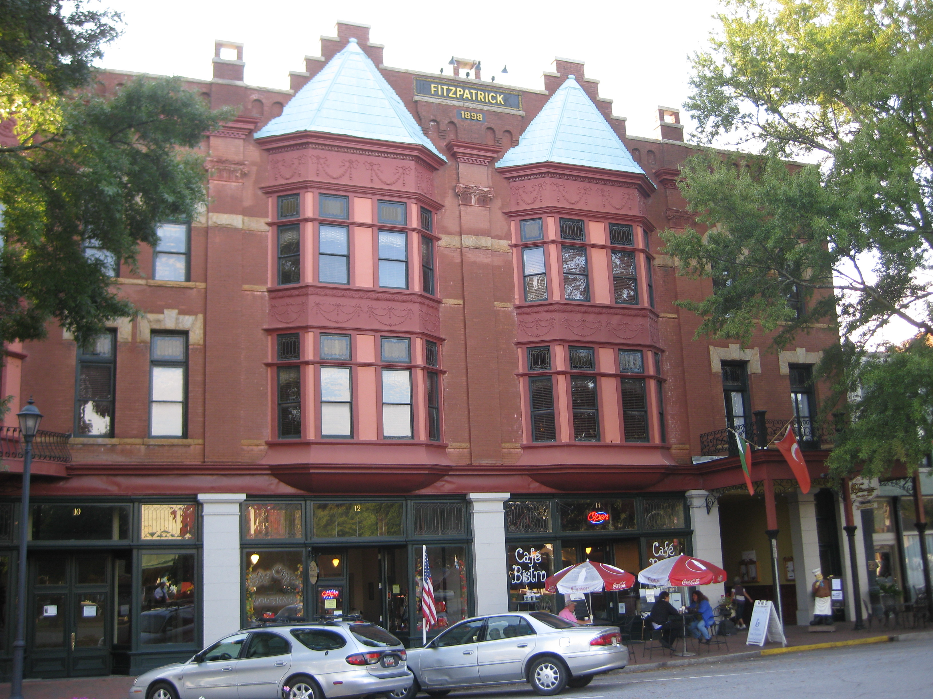 The Fitzpatrick Hotel, on the town square in Washington, Wilkes County, Georgia, built in 1898 and listed with the U.S. National Register of Historic Places.